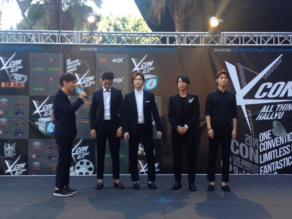 KCON music festival 2014, red carpet, CNBLUE.